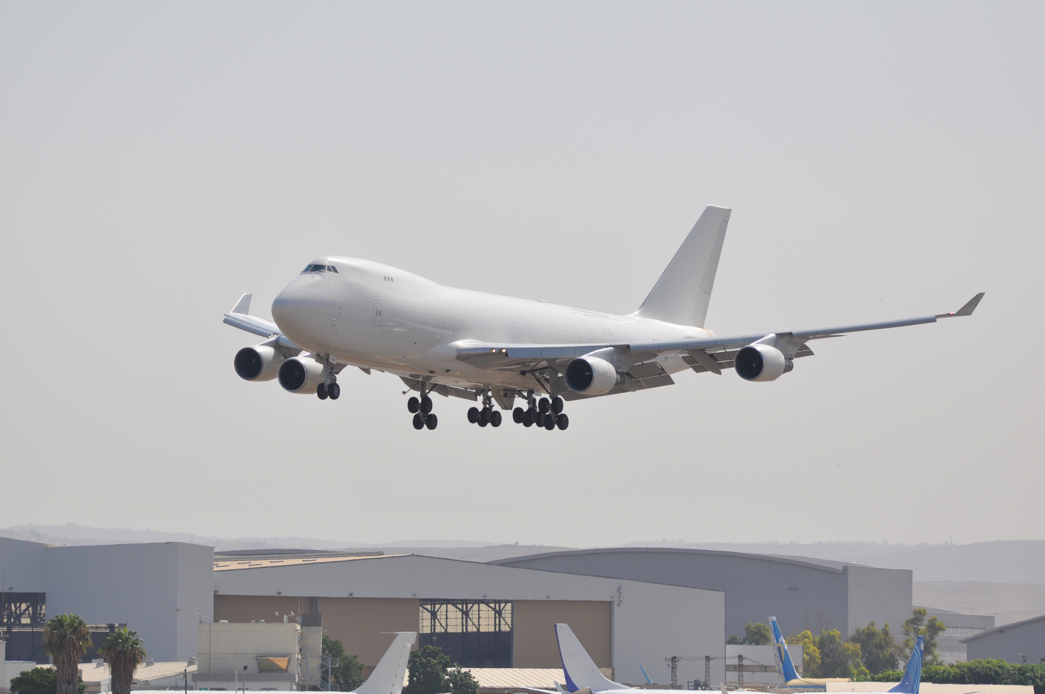 Four-engine wide-body layout, 6-foot (1.8 m) winglets mounted on 6-foot (1.8 m) wing tip extension, two-crew glass cockpit, fuel-efficient engines, a horizontal stabilizer fuel tank, and revised fuselage/wing fairings